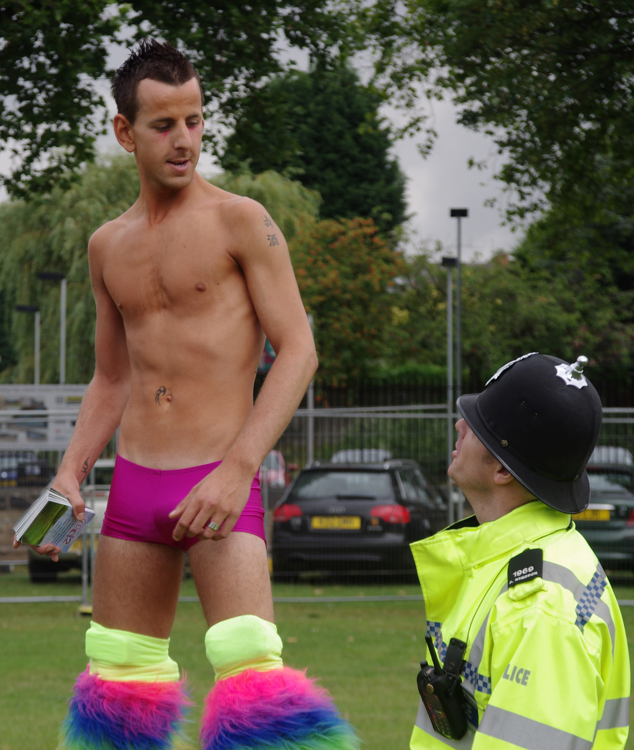 A man wearing stilts talks to a policeman at Nottingham Pride 2010.